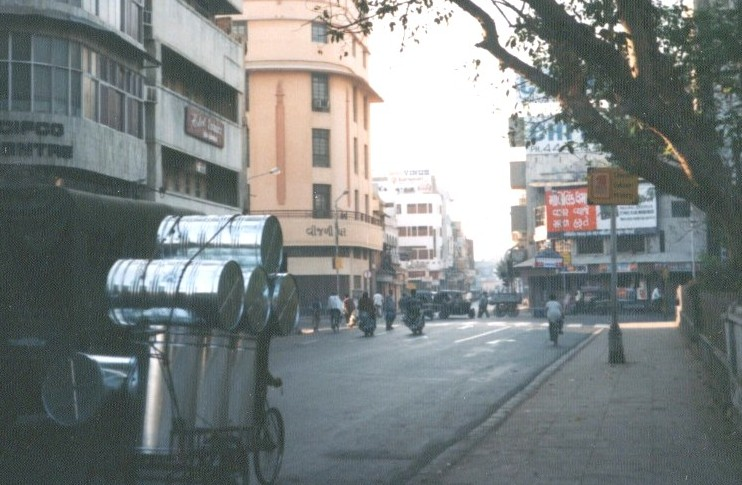 Picture of the area in the old city of ahmedabad, the picture is taken from the Sidi-Saiyad-Mesh (Jali) towards the Electric House. The road across (turning at the corner of Electric House) is relief road.